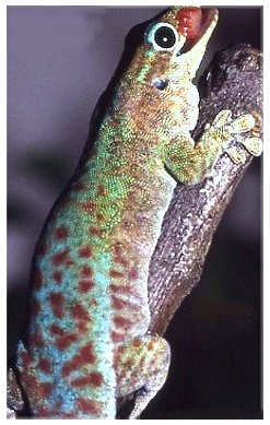 Bourbon Day Gecko (Phelsuma borbonica), ssp mater from Foret des Lianes, south Reunion Island